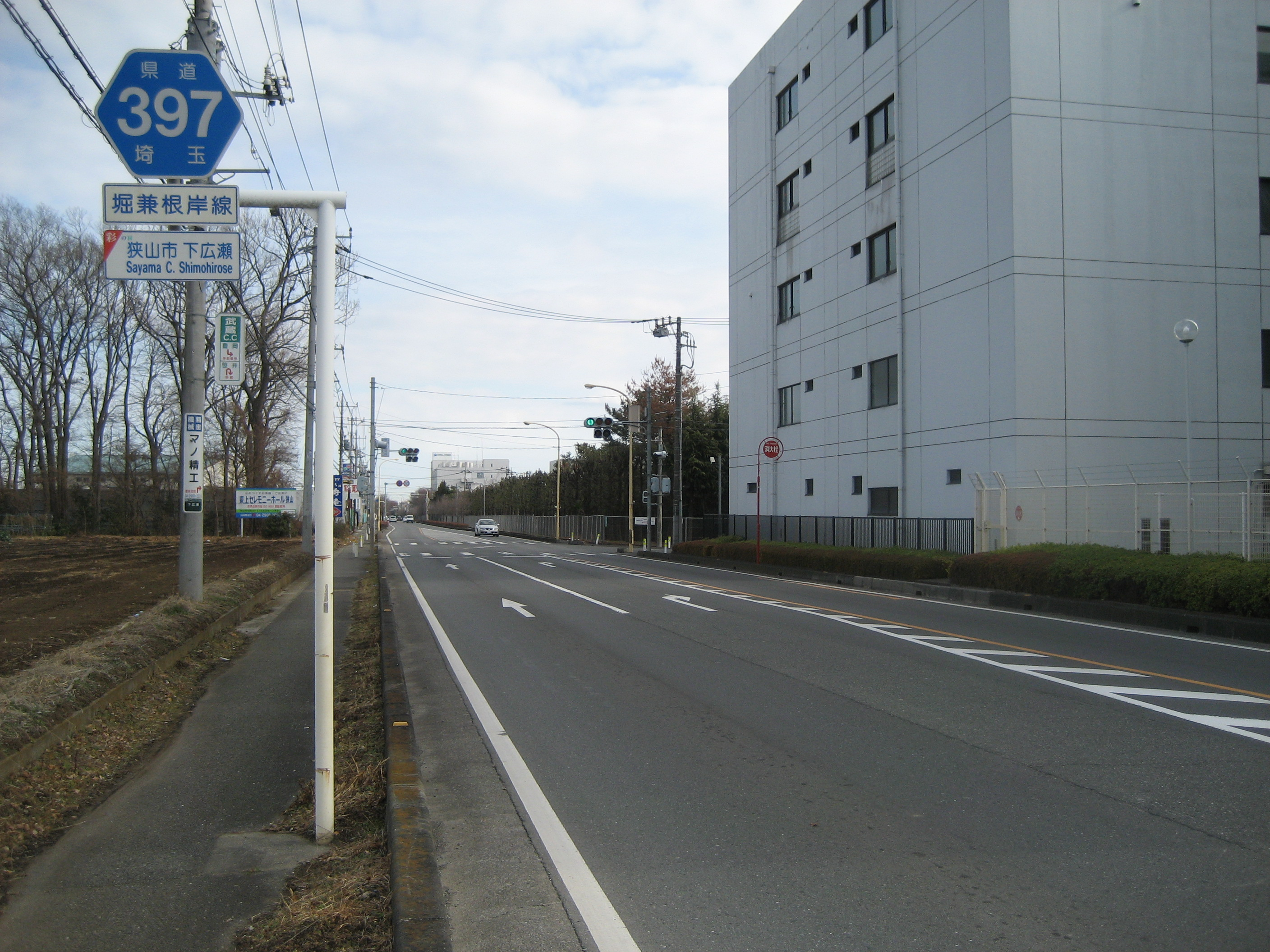 The Saitama Prefectural Road Route 397 in Shimoshirose, Sayama City